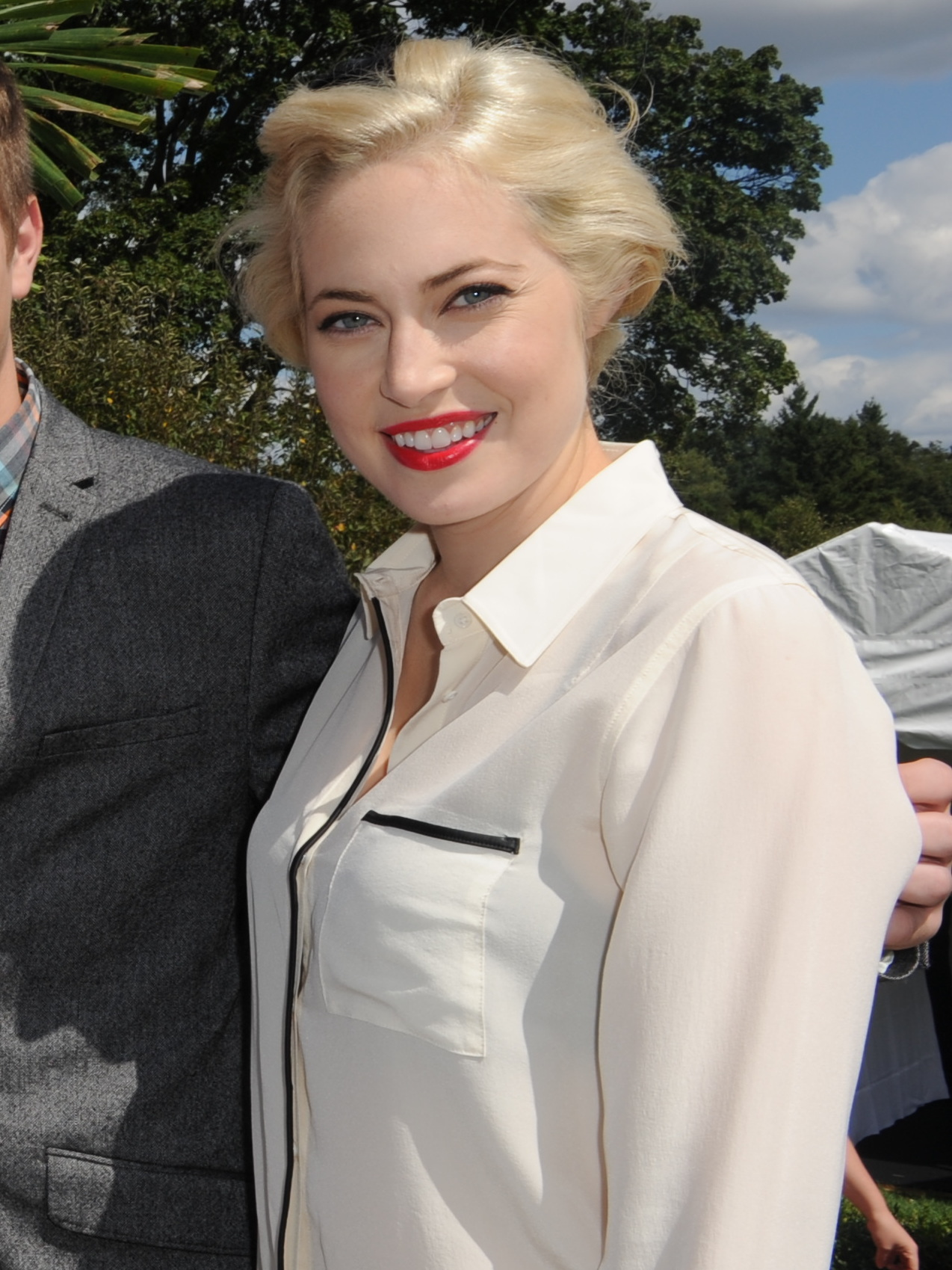 TIFF Rising Stars Tatiana Maslany (Picture Day) Charlie Carrick (an alumni of the CFC Actors Conservatory), Connor Jessup (Blackbird) and Charlotte Sullivan (“Rookie Blue”) with CFC founder Norman Jewison. The Canadian Film Centre (CFC) Annual BBQ was held on Sept. 9, 2012 in Toronto, Ontario in celebration of Canadian Talent at the Toronto International Film Festival. Learn more about the Annual BBQ by visiting To find out more about the Canadian Film Centre, please visit: Photo by Tom Sandler Photography